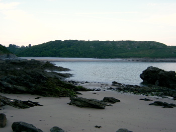 Pwll-Du Bay on the Gower as seen from the Western headland.